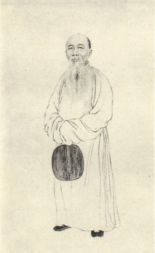 Shen Jiaben